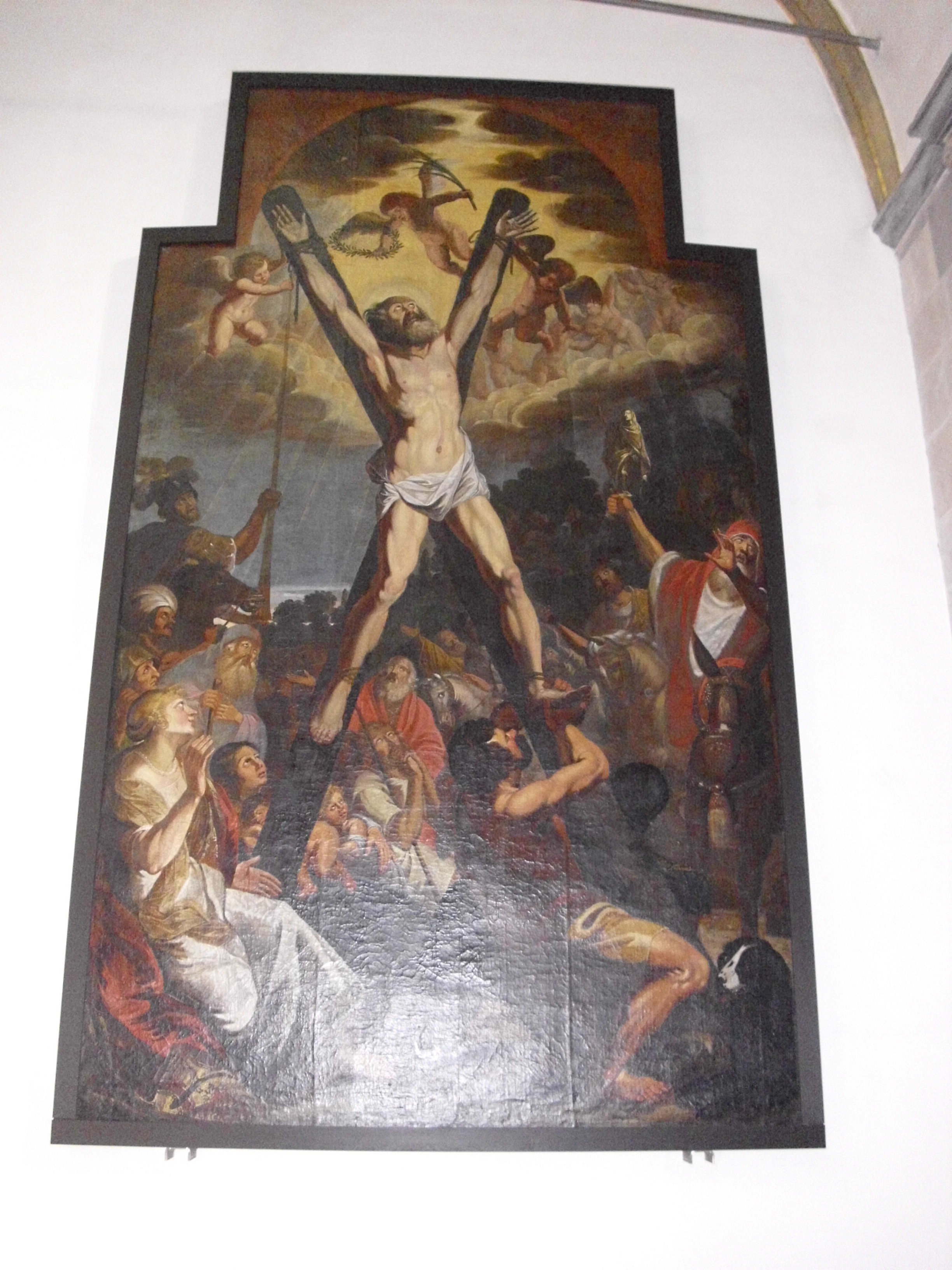 Maccabees Shrine (Cologne).